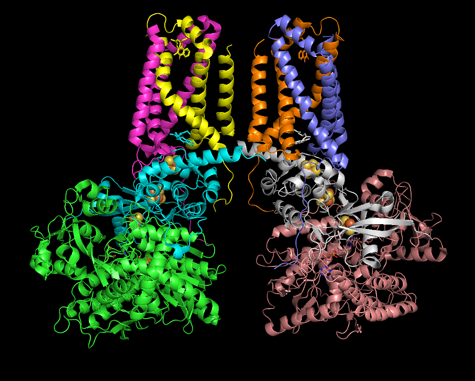 1l0v crystal structure